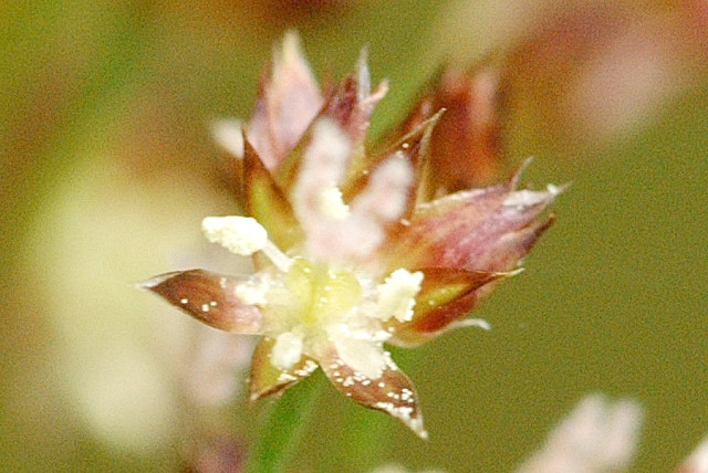 Juncus acutiflorus from Commanster, Belgian High Ardennes .